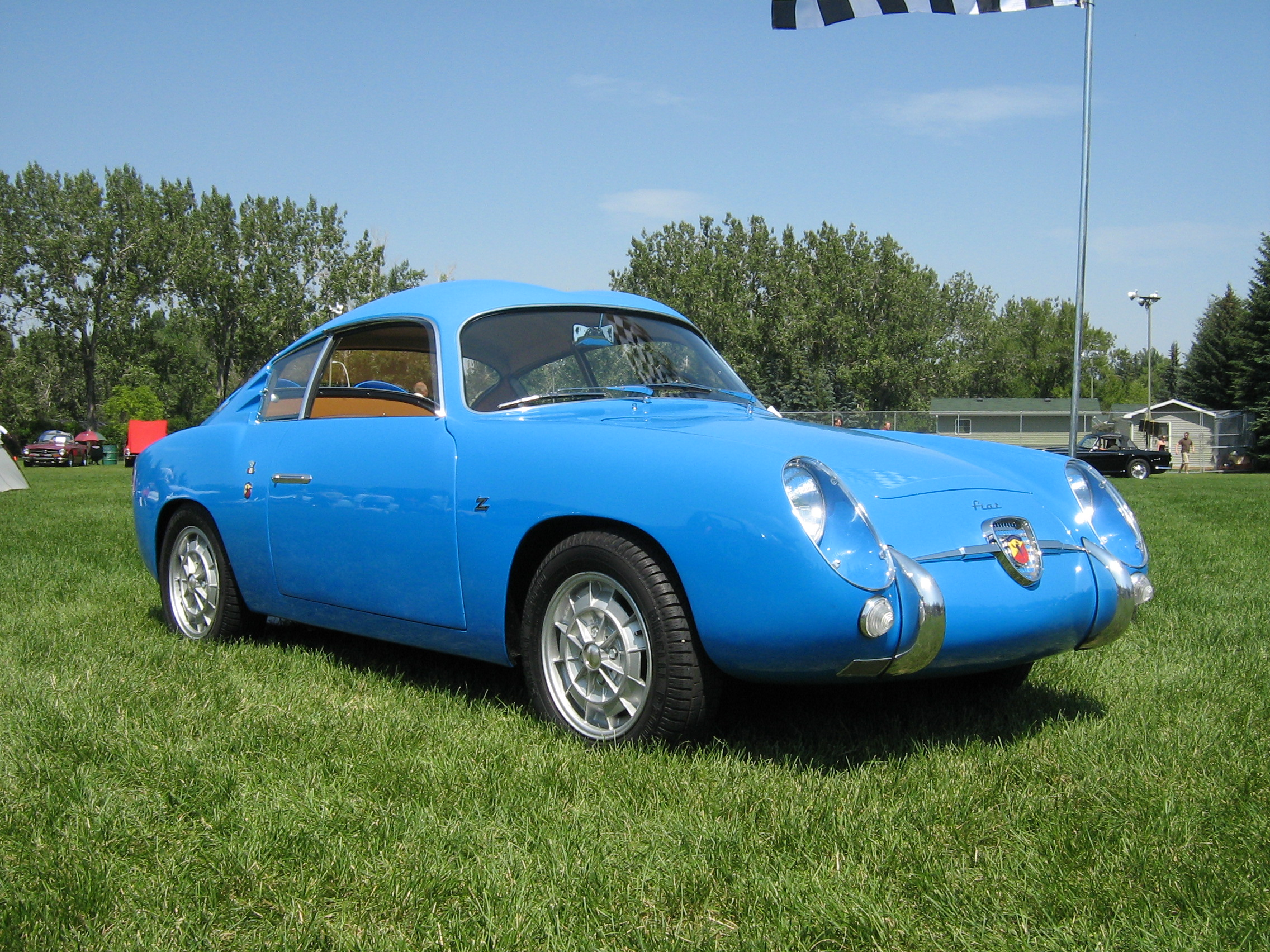 1959 Fiat Abarth 750 GT Zagato Double Bubble - with an aluminum body by Zagato its based a Fiat 600 platform modified by Abarth. Weight is only 1,180 lbs.